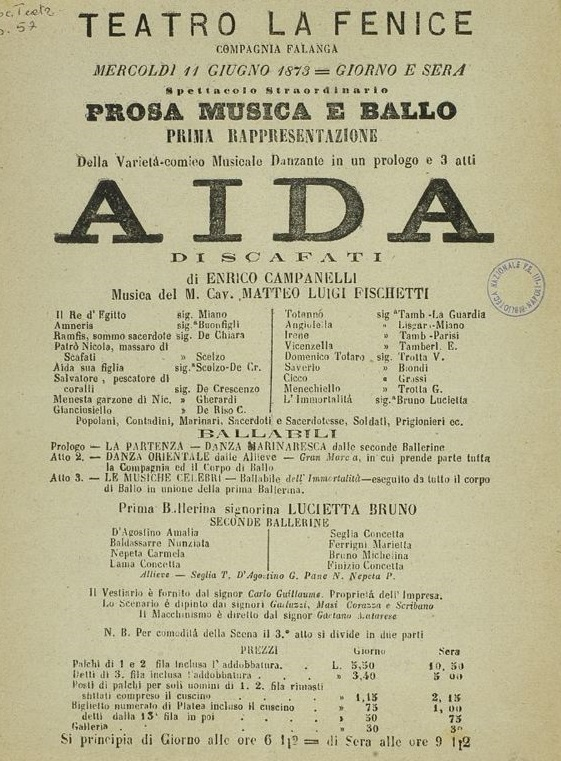 Poster for the premiere of the comic opera Aida di Scafati, Teatro Fenice, Naples, 11 June 1873